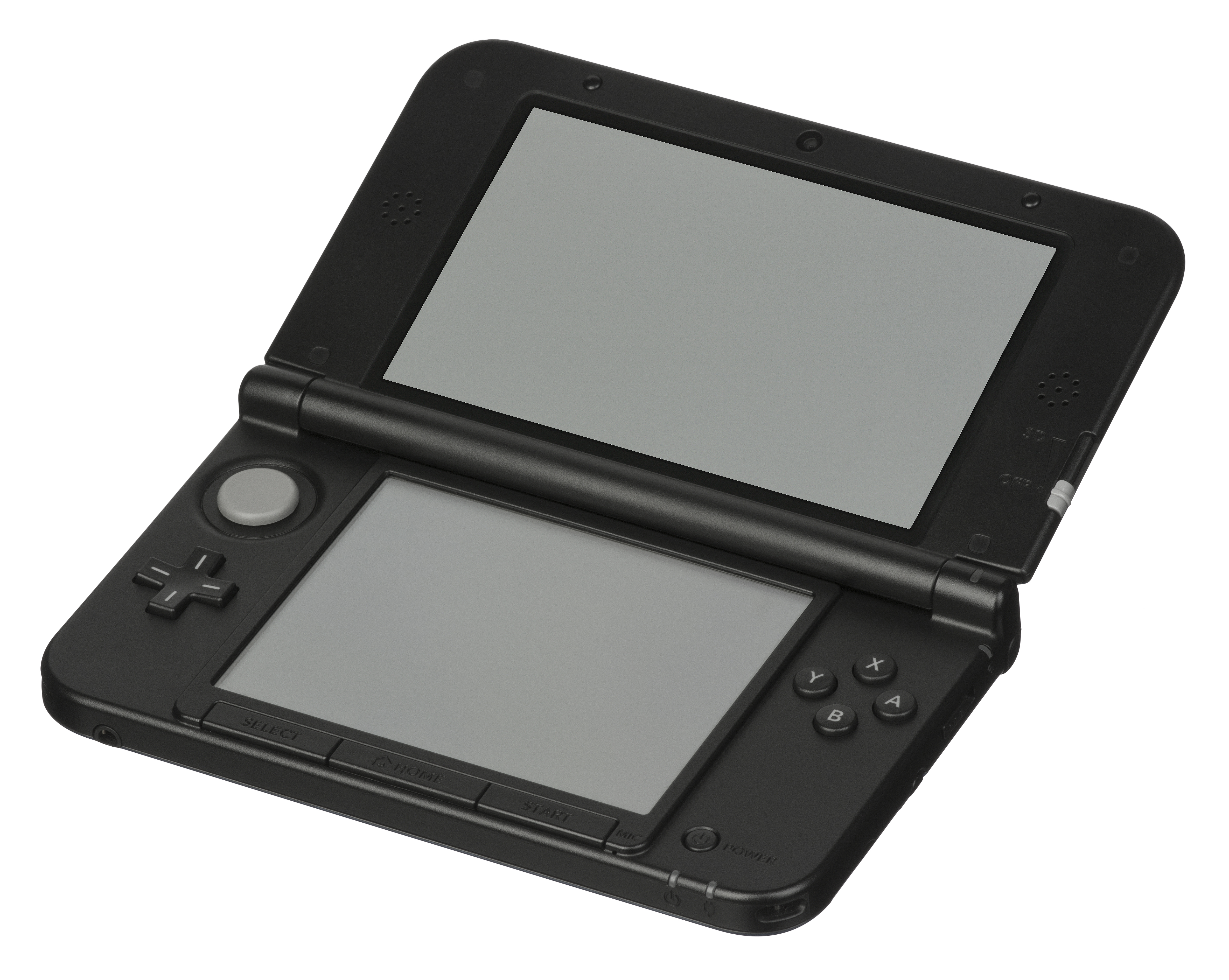 The Nintendo 3DS XL handheld gaming console, shown opened. The 3DS XL is a hardware revision of the original 3DS console, offered alongside the 3DS as an alternative model. It is much larger than the 3DS, featuring screens that are 90% larger. It was released worldwide in 2012, about a year and a half after the release of the original 3DS. The system launched in America retailing at $199 and available in red or blue, with other colors and special editions released later. The interior of the 3DS XL is entirely black on most models and the outer shell is colored. The 3DS platform is Nintendo's followup to the Nintendo DS handheld. Like the DS, it features a similar clamshell design, two screens for gaming and a bottom, touch-sensitive screen that uses an included stylus. New additions are higher resolution screens, an analog slider pad, better graphics and a top screen that displays glasses-free 3D imaging. The 3DS is backwards compatible with the DS.